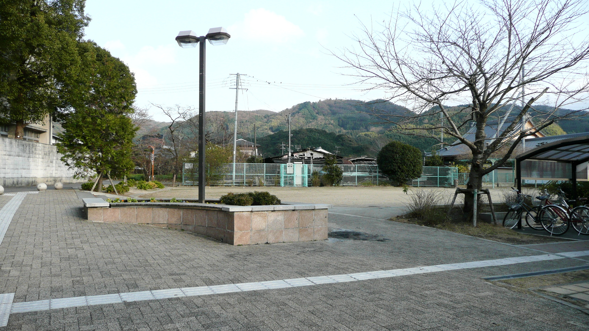 West Japan Railway Nara Line Yamashiro-Taga Station east square